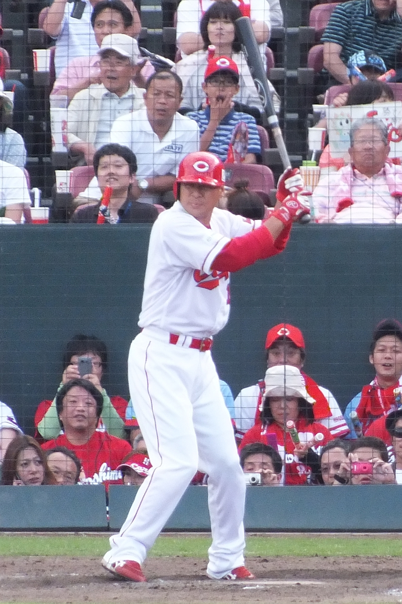 Tomonori Maeda, outfielder of the Hiroshima Toyo Carp, at MAZDA Zoom-Zoom Stadium Hiroshima.